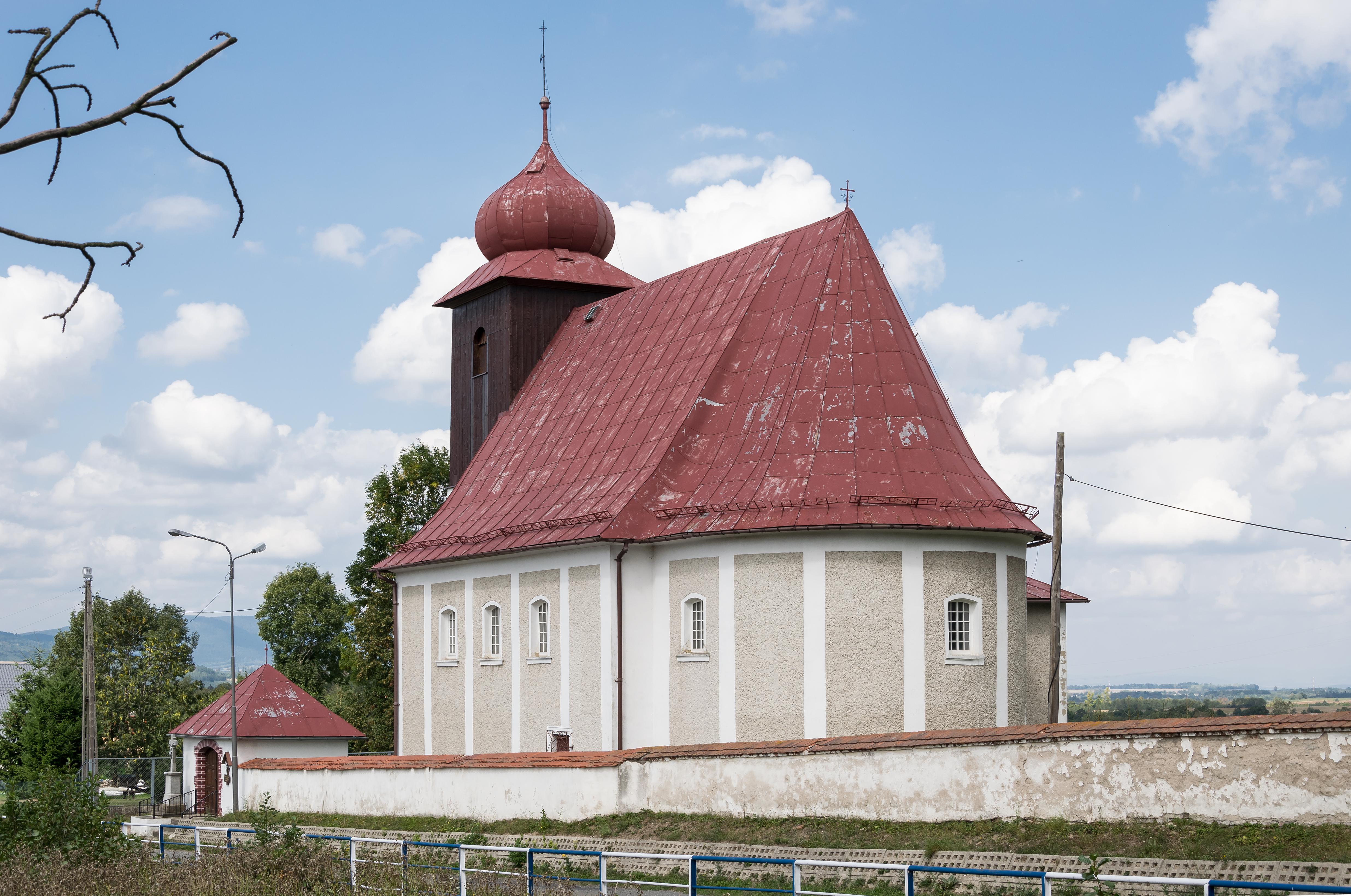 Saint Florian church in Szklarnia Wikidata has entry Q30049179 with data related to this item.